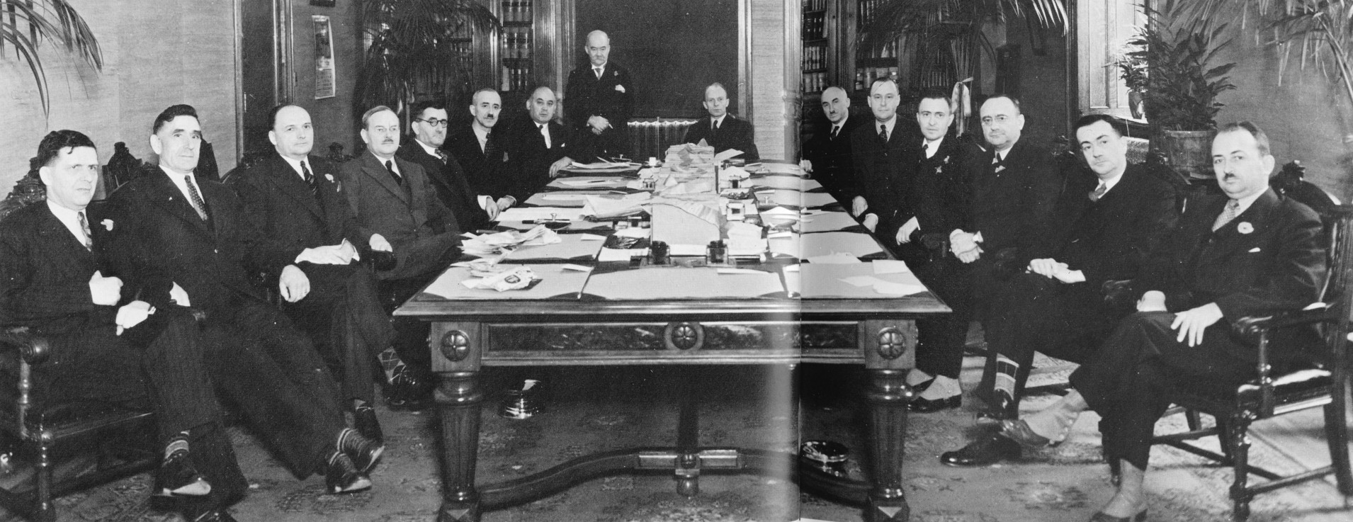 Adélard Godbout government (Québec) in 1939. From left to right: Wilfrid Hamel, Louis-Joseph Thisdel, Frank Connors, Edgar Rochette, Oscar Drouin, Wilfrid Girouard, T.-D. Bouchard, Alfred Morisset (clerk of the executive council, standing), Adélard Godbout (sitting at the end of the table, in the center of the picture), Arthur Mathewson, Pierre-Émile Côté, Léon Casgrain, Cléophas Bastien, Henri Groulx, Georges-Étienne Dansereau.